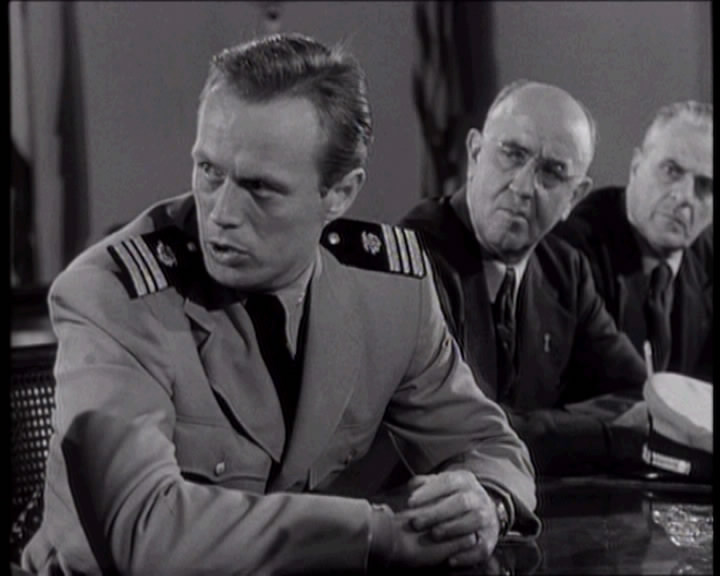 Panic in the Streets is a black and white, 96-minute film directed by Elia Kazan and released in 1950 by 20th Century Fox. It is film noir semidocumentary shot exclusively on location in New Orleans, Louisiana. Richard Widmark in foreground.